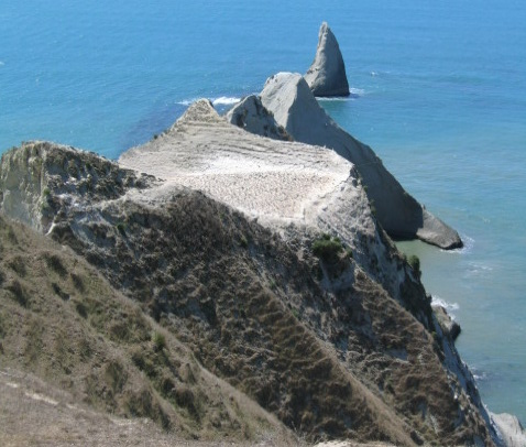 View of Cape Kidnappers, North Island of New Zealand. A large Australasian Gannet colony can be seen in the center.